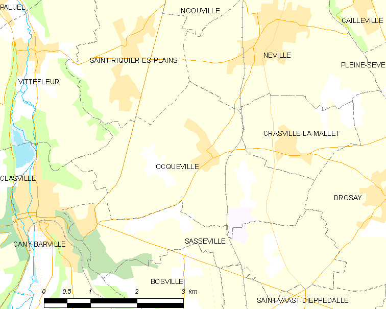 Map of French municipality Ocqueville